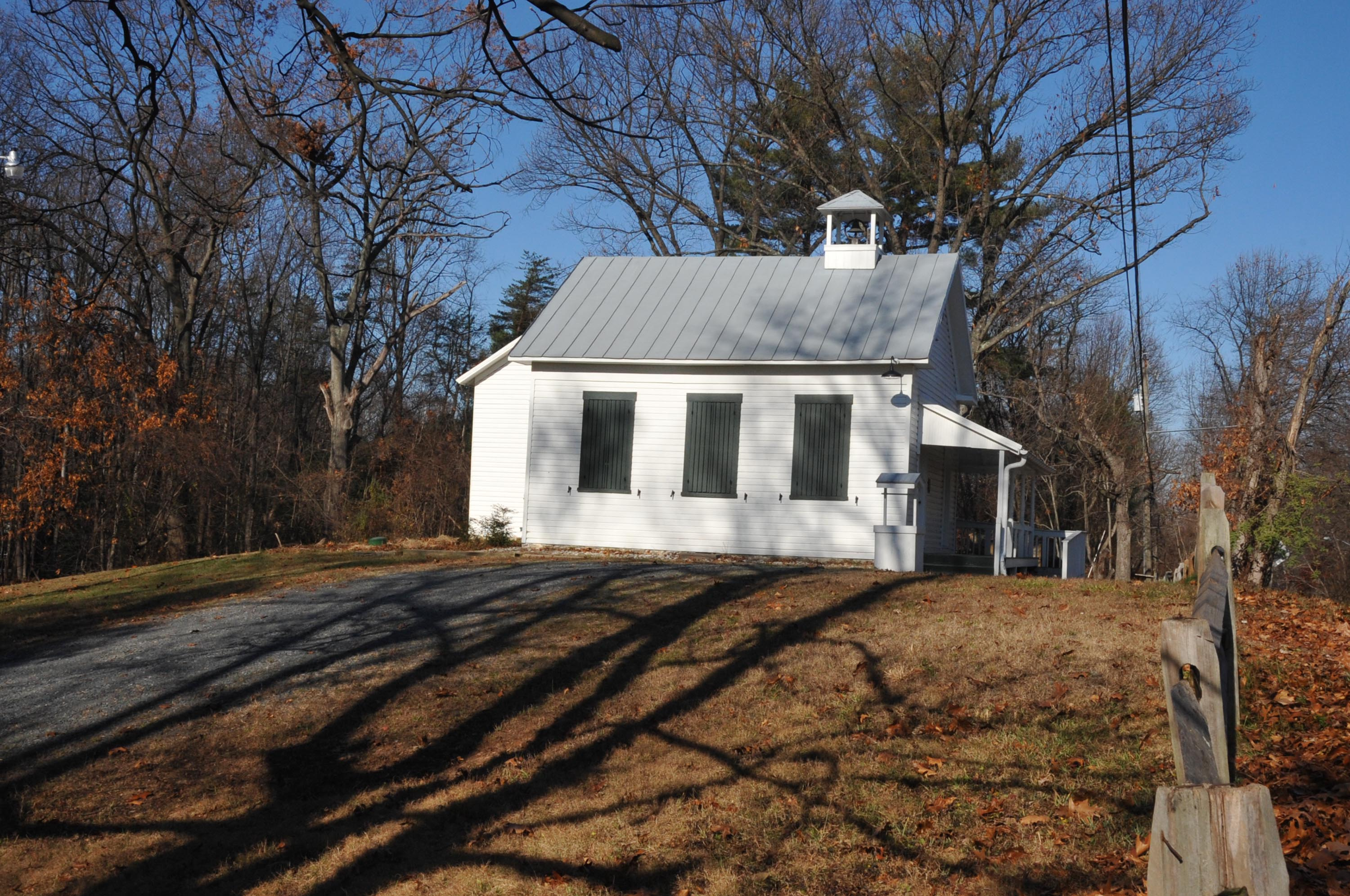 Built as a one room school in 1884 and closed in 1951 when it became a community house